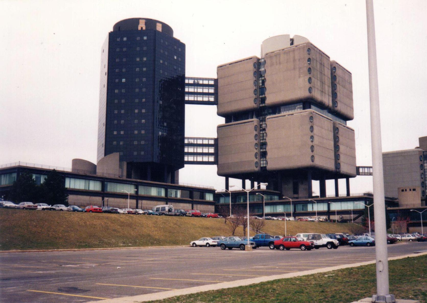 Medical Center of the State University of New York at Stony Brook